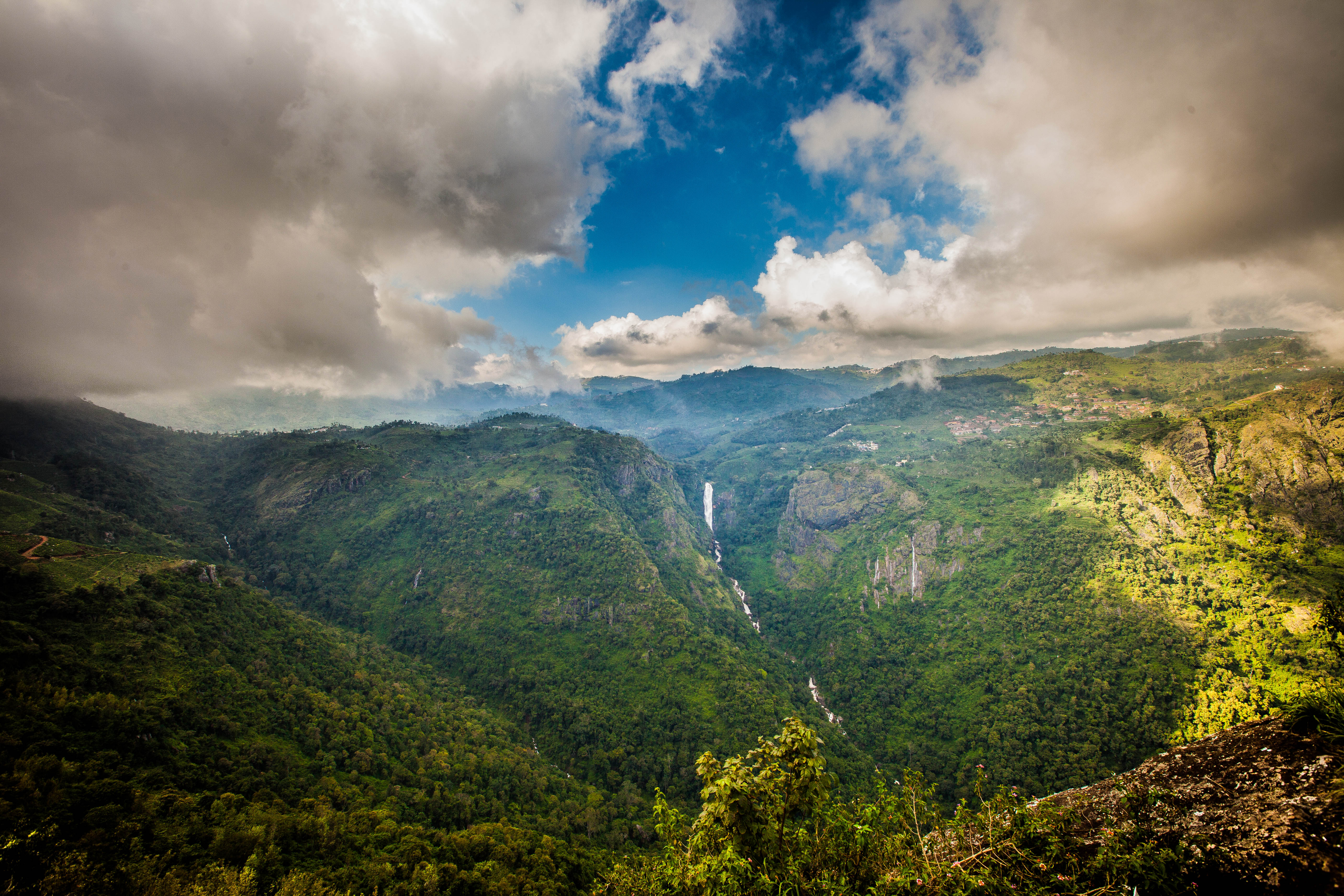 Magnificent panoramic view of the forest in Kallar Nellithorai basin.